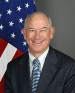 Philip J. Crowley